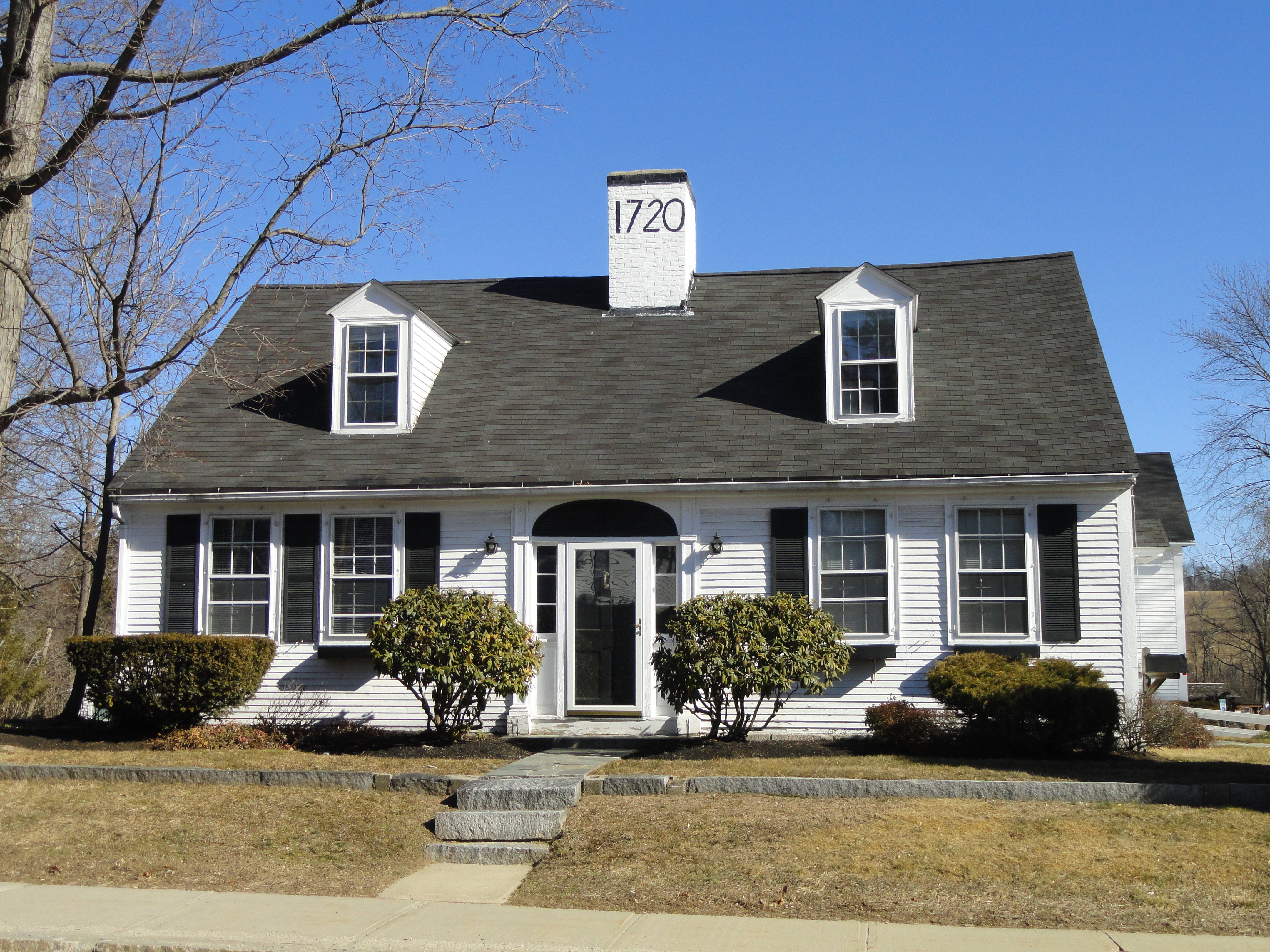 House in Groton, Massachusetts, USA.